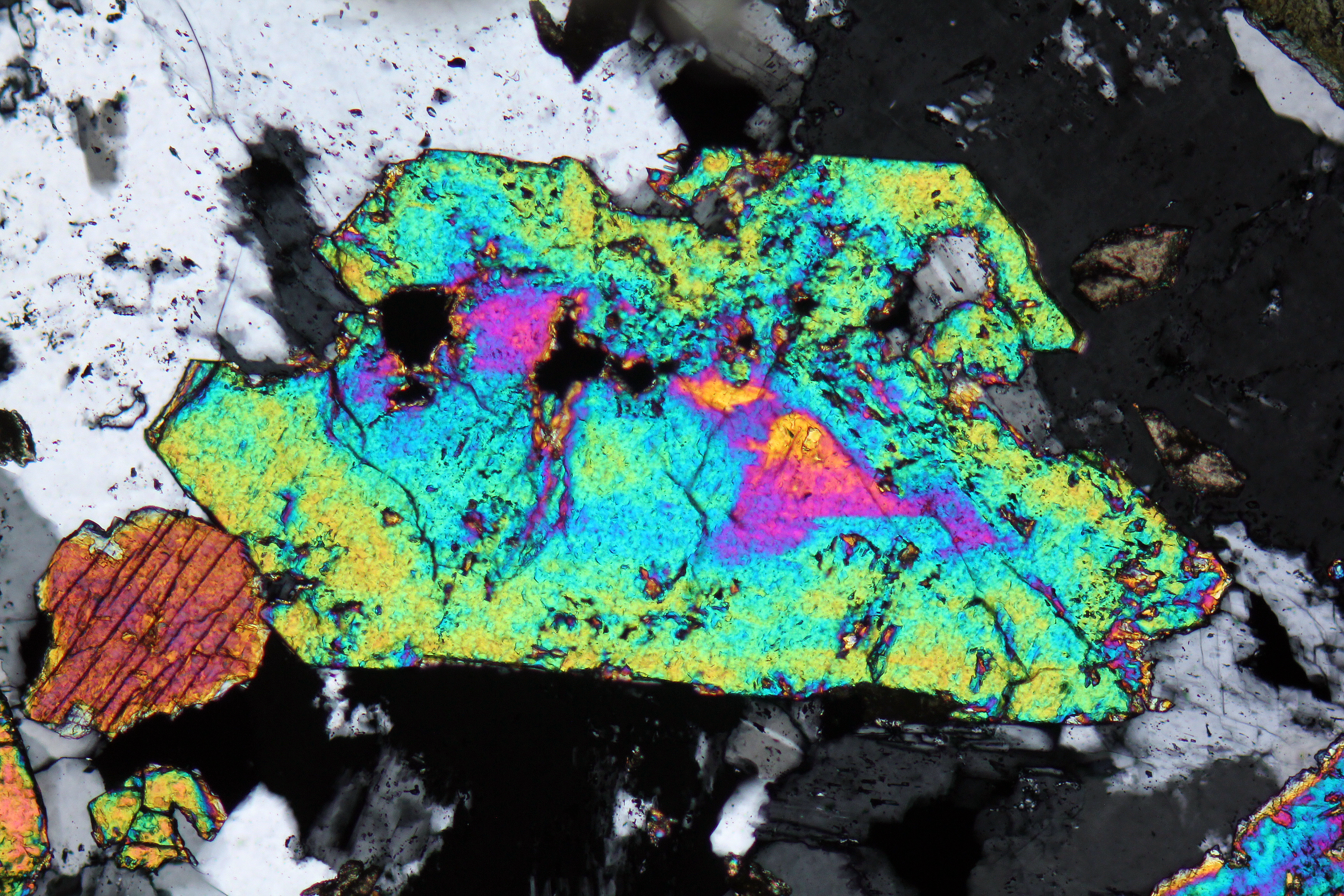 Pistacite Epidote with harlequin coloros. Crossed nicols image, magnification 10x (Field of view = 2mm)